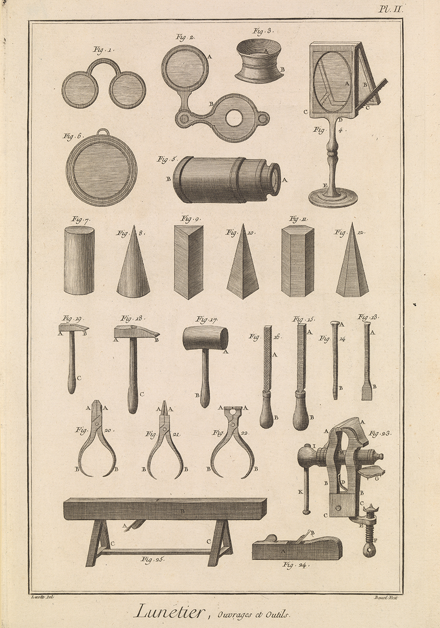 Lunetier, ouvrages et outils A plate illustrating opticians' tools and the products of their work, including spectacles and a spyglass, presumably from a French encyclopedia. The engravings illustrating Diderot and d'Alembert's Encyclopedie (1751–80) were, as this one, by Benard after J-R Lucotte. See also ZBA4497 and ZBA4499. Lunetier outages and outils PLII